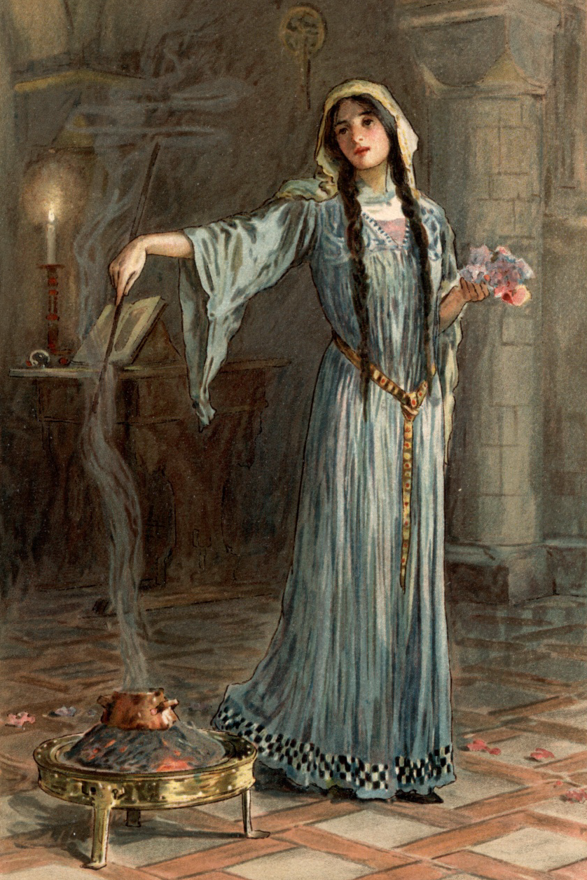 W. H. Margetson's illustration for Legends of King Arthur and His Knights by James Knowles.